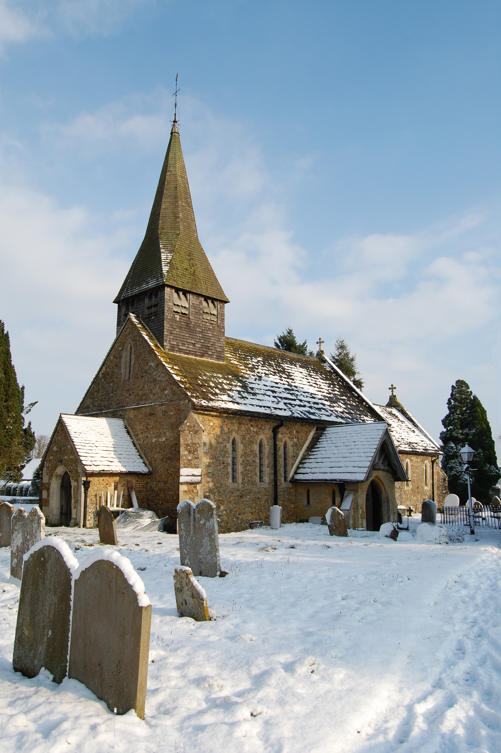 St John the Baptist parish church, Capel, Dorking, Surrey, seen from the southwest in snow